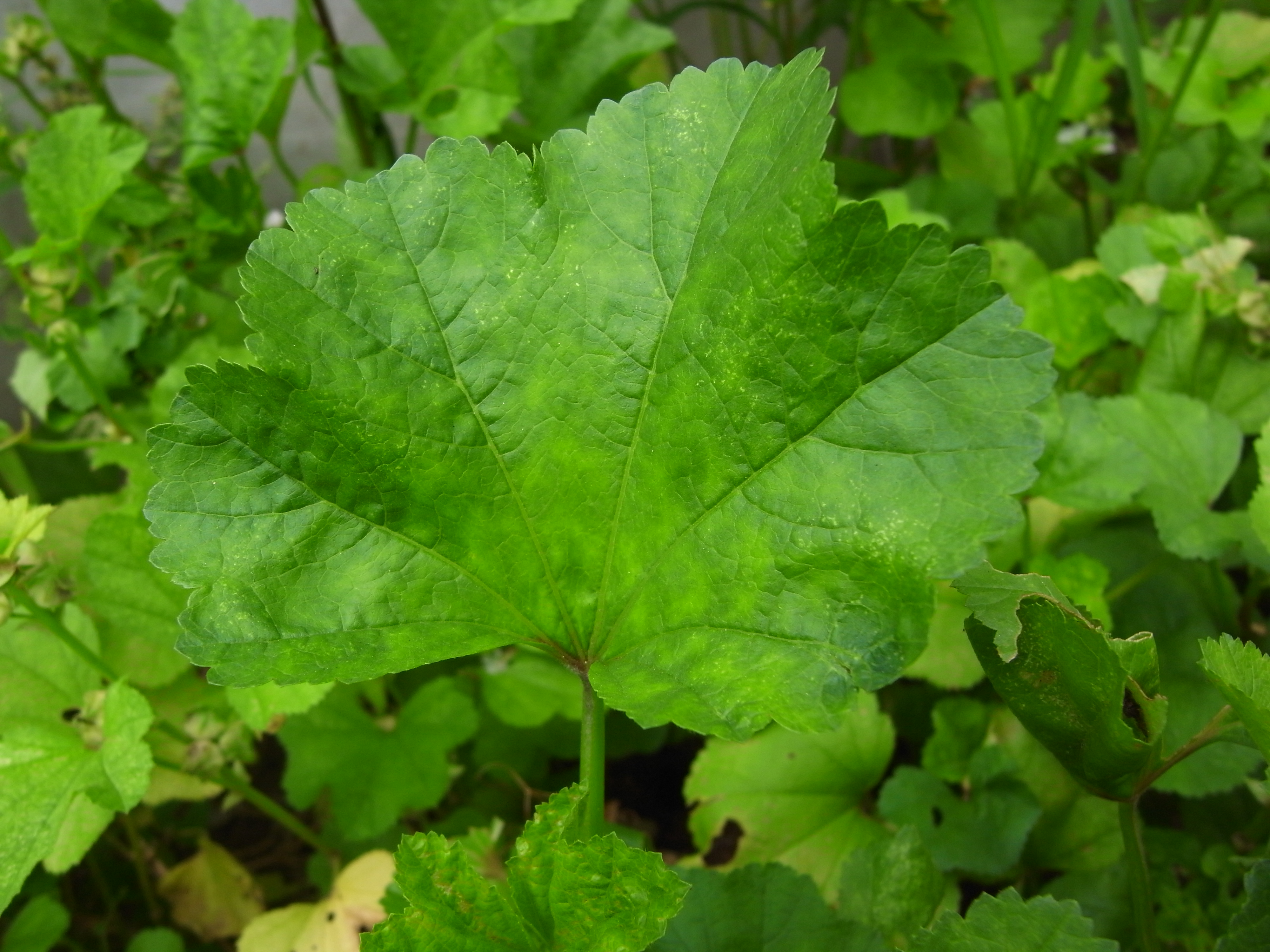 Malva verticillata